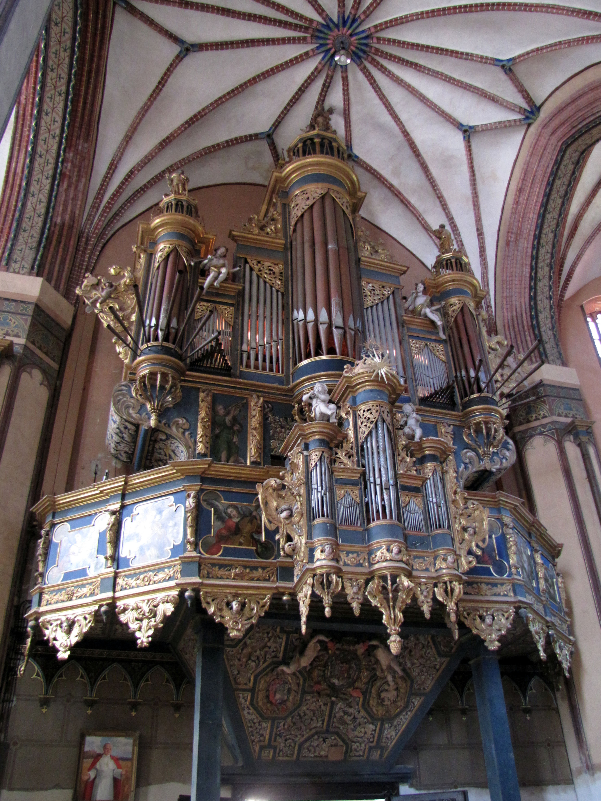 Organ of the Frombork Cathedral in Frombork